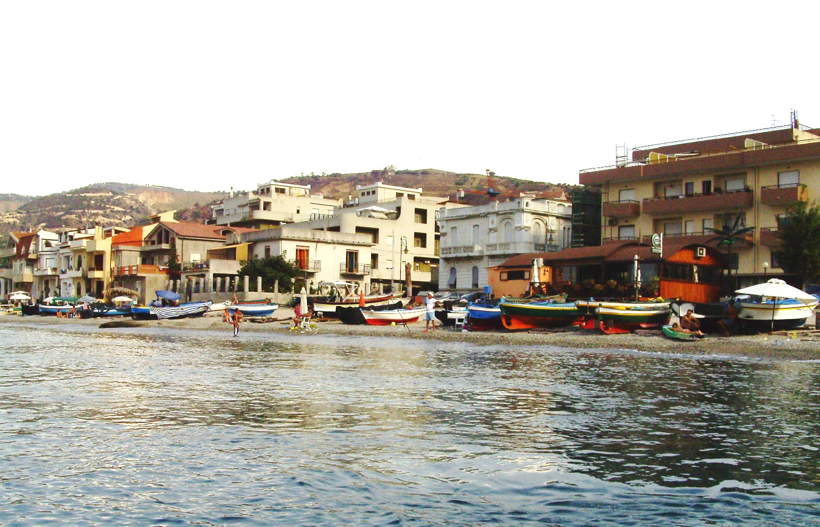 Beach of Cannitello, Villa San Giovanni (RC), Italy.